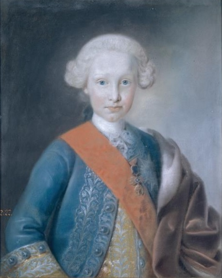 Infante Gabriel of Spain (1752-1788)